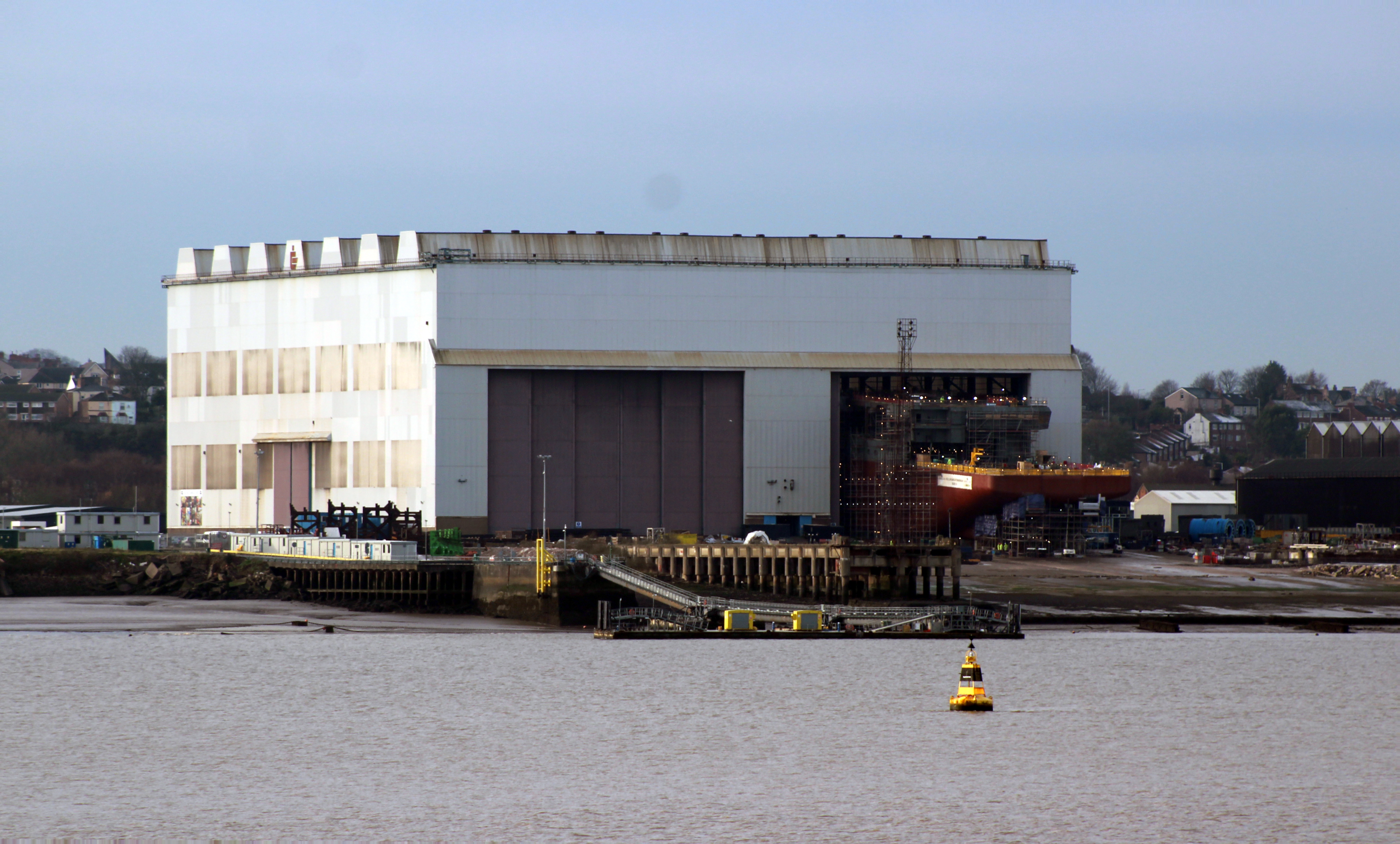 Seen across the Mersey from Atlantic Way south of Harrison Way. RRS Sir David Attenborough under construction in the right-hand bay.